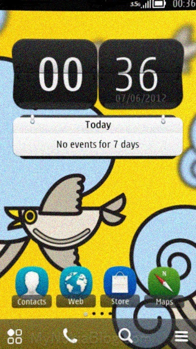 Home screen system symbian version Nokia belle fp2